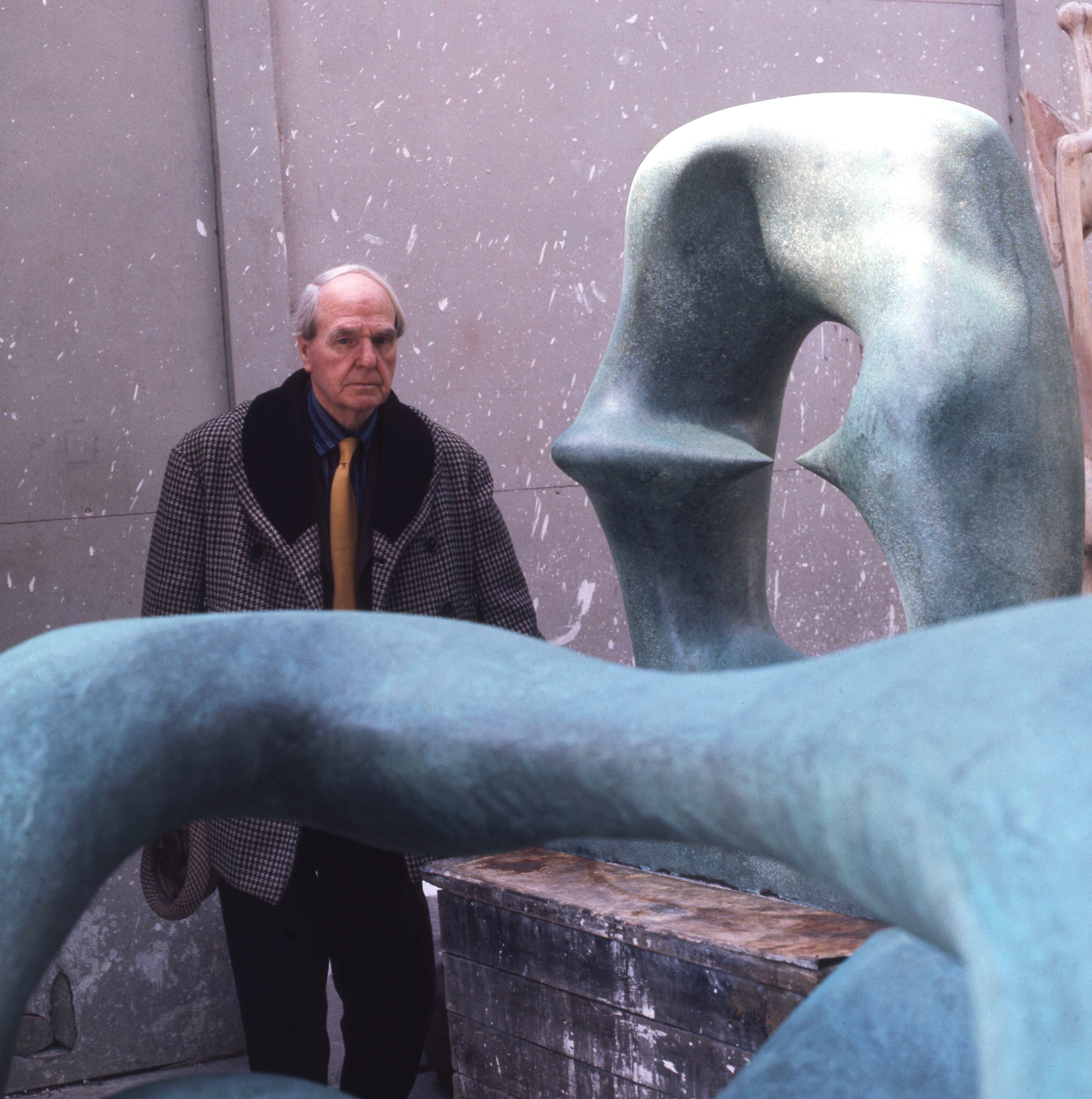 Henry Moore, standing next to his sculpture Working Model for Oval with Points (LH 595)